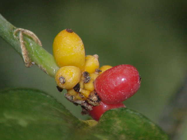 Species: Aglaonema commutatum Family: Araceae Image No. 1